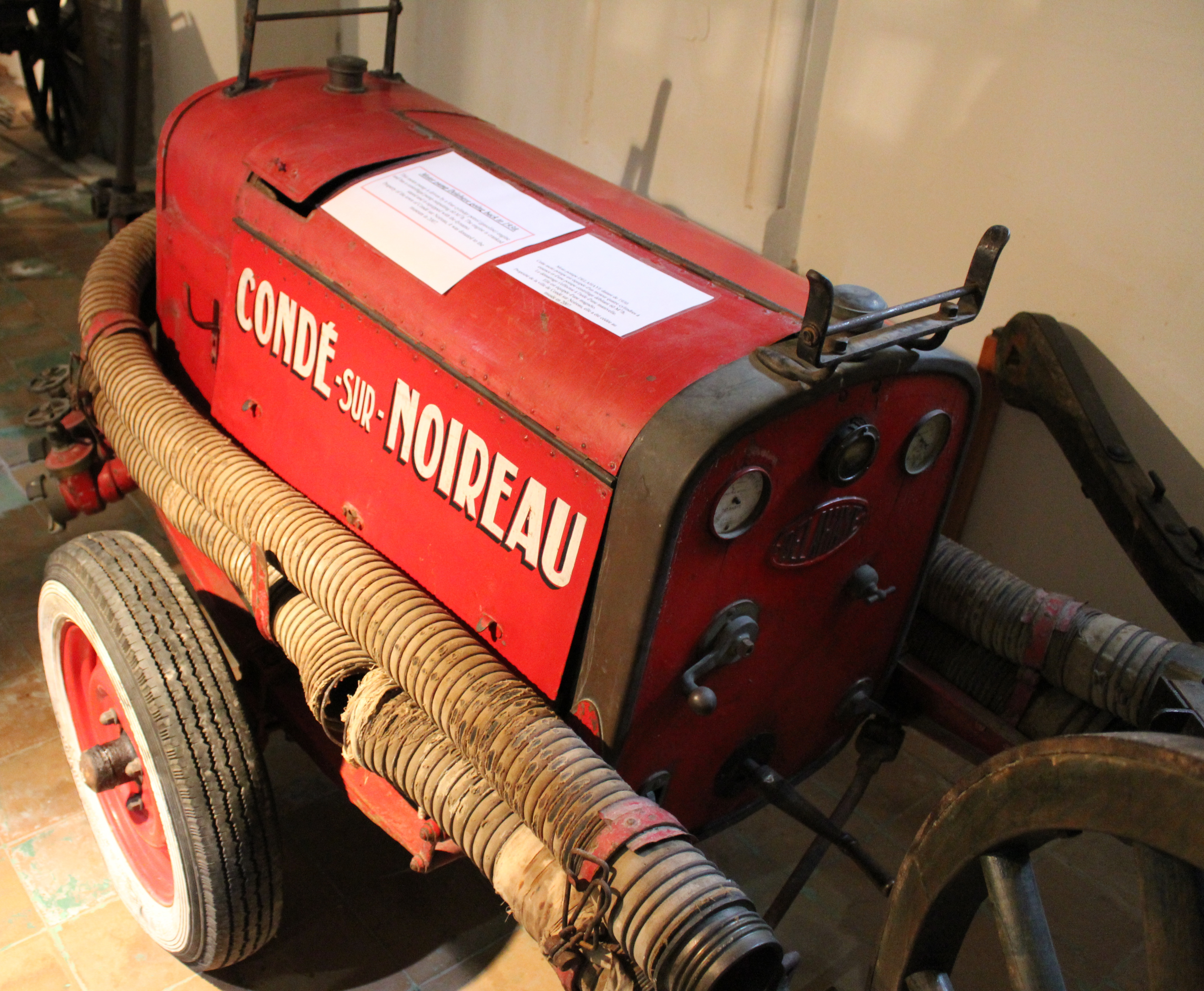 Departemental museum of firefighters, Bagnoles-de-l'Orne, France.